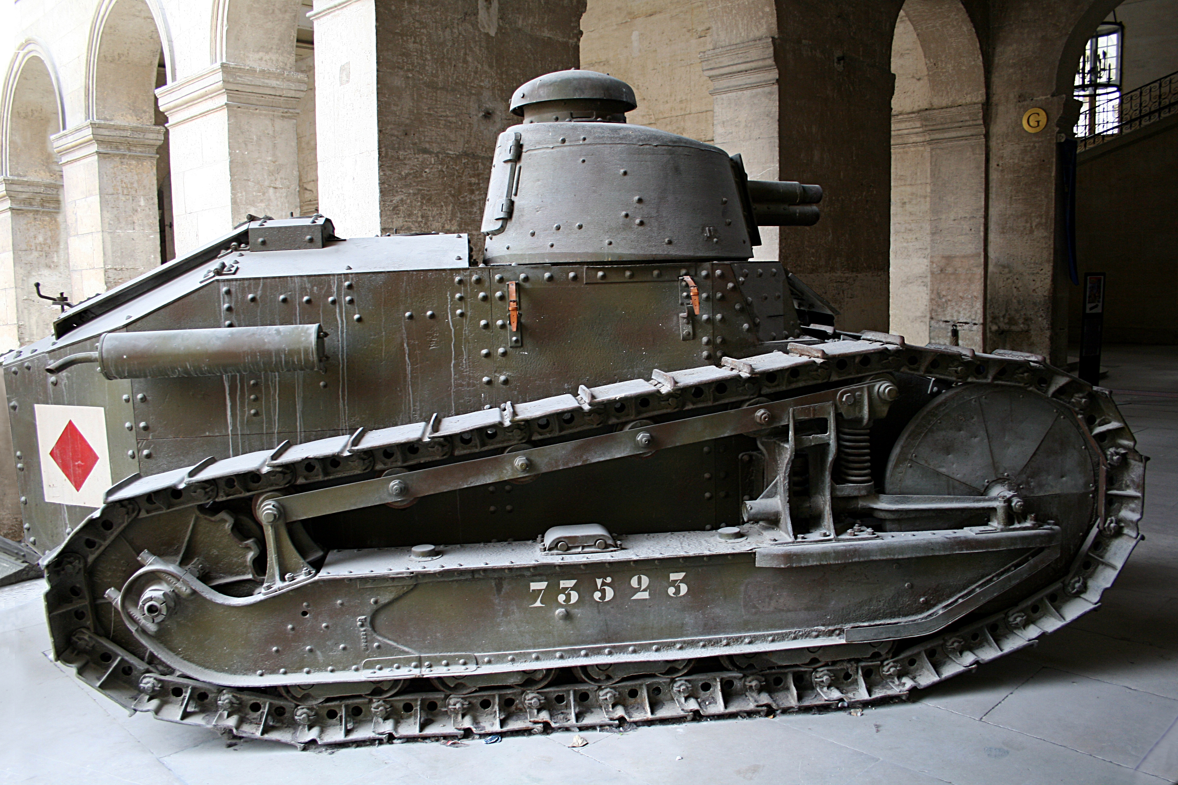 Light tank Renault FT 17 of 6.5 T (1916) intended for a crew of 2 men (tank commander / gunner and driver), equipped with a turret with total revolution armed with a short barrel of 37 mm semi-automatic , provided with a steel armor with a maximum thickness of 22 mm (turret) and 6 mm (floor), whose 16 hp engine allowed to reach the maximum speed of 8 km / hr, exhibited in the museum of the army of the Hôtel de Invalides in Paris.